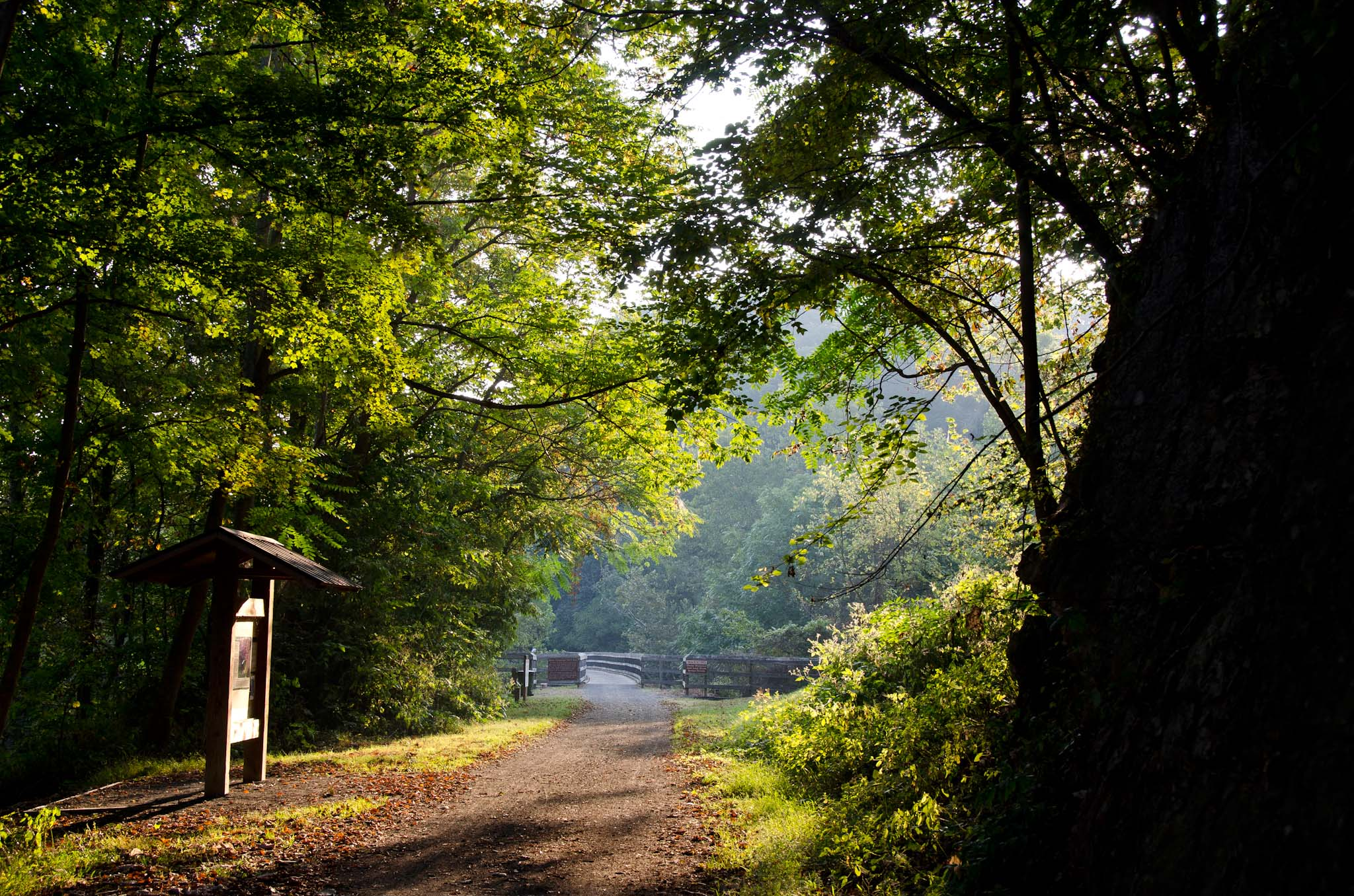 Mid-morning at the trail